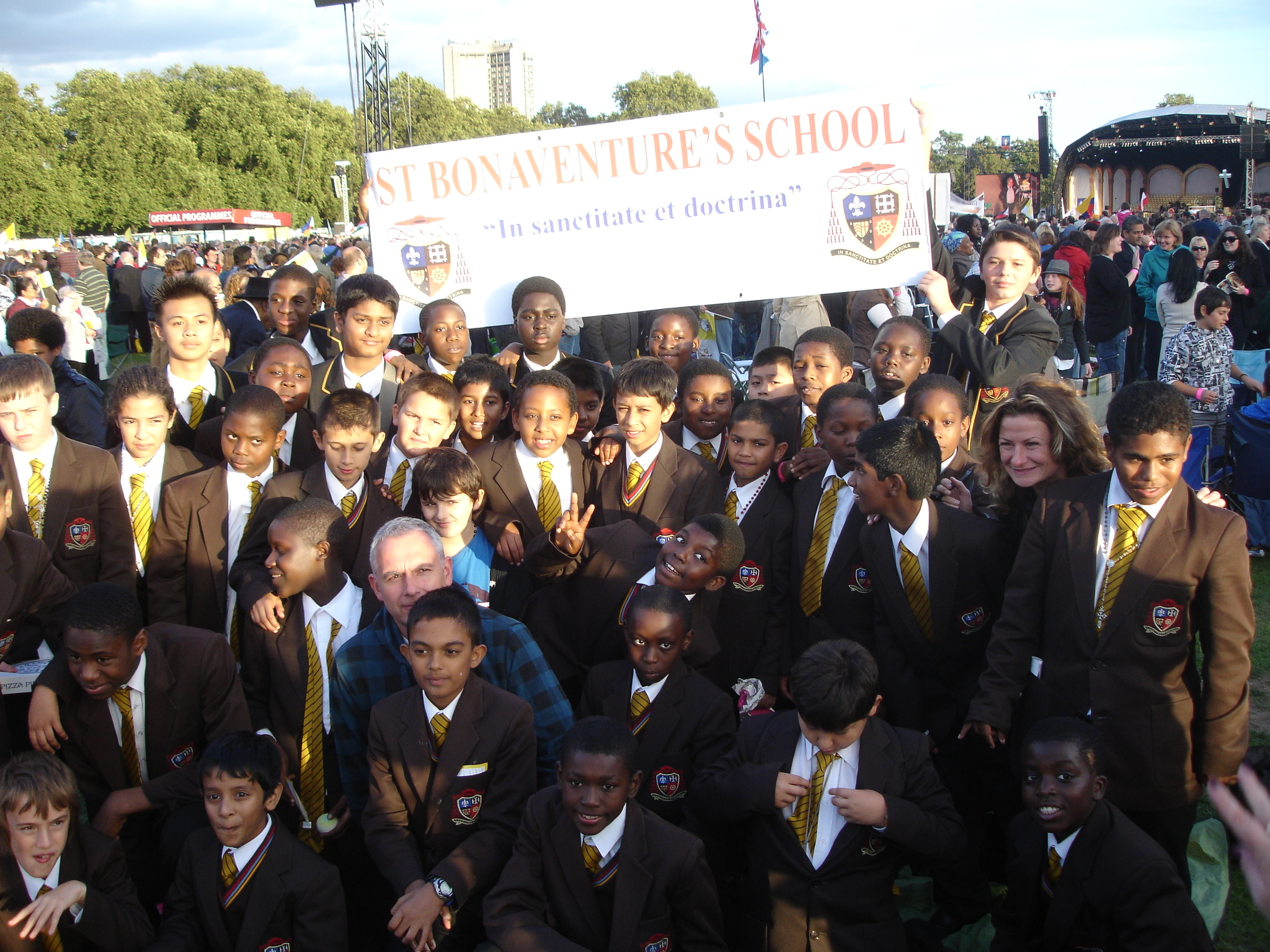 St Bon's student at Hyde Park for the Papal Visit